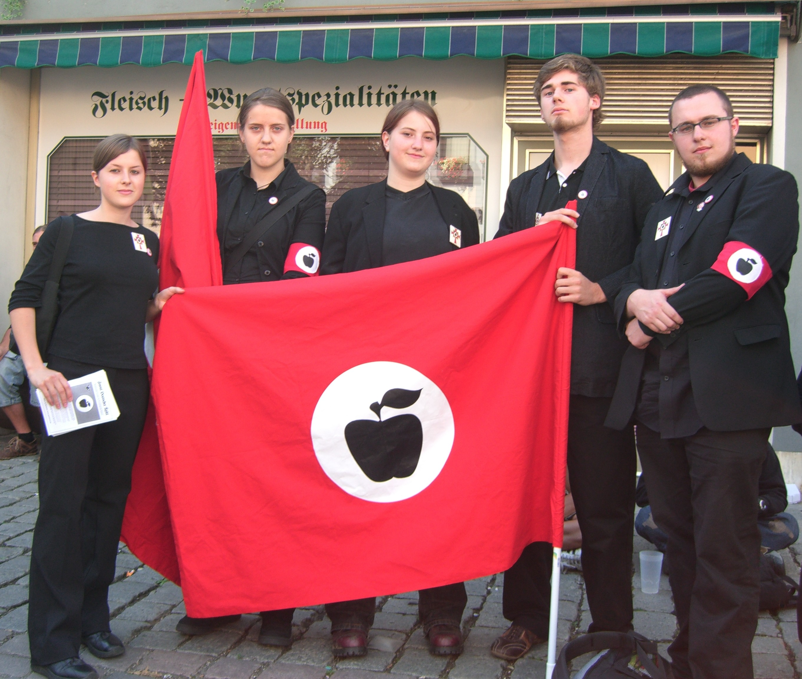 Group photo of the parody organisation Front Deutscher Äpfel at the anti nazi demonstration "Gräfenberg ist bunt" (Gräfenberg is colorful) at the market place of Gräfenberg in Upper Franconia (Bavaria, Germany) on 18. August 2007.